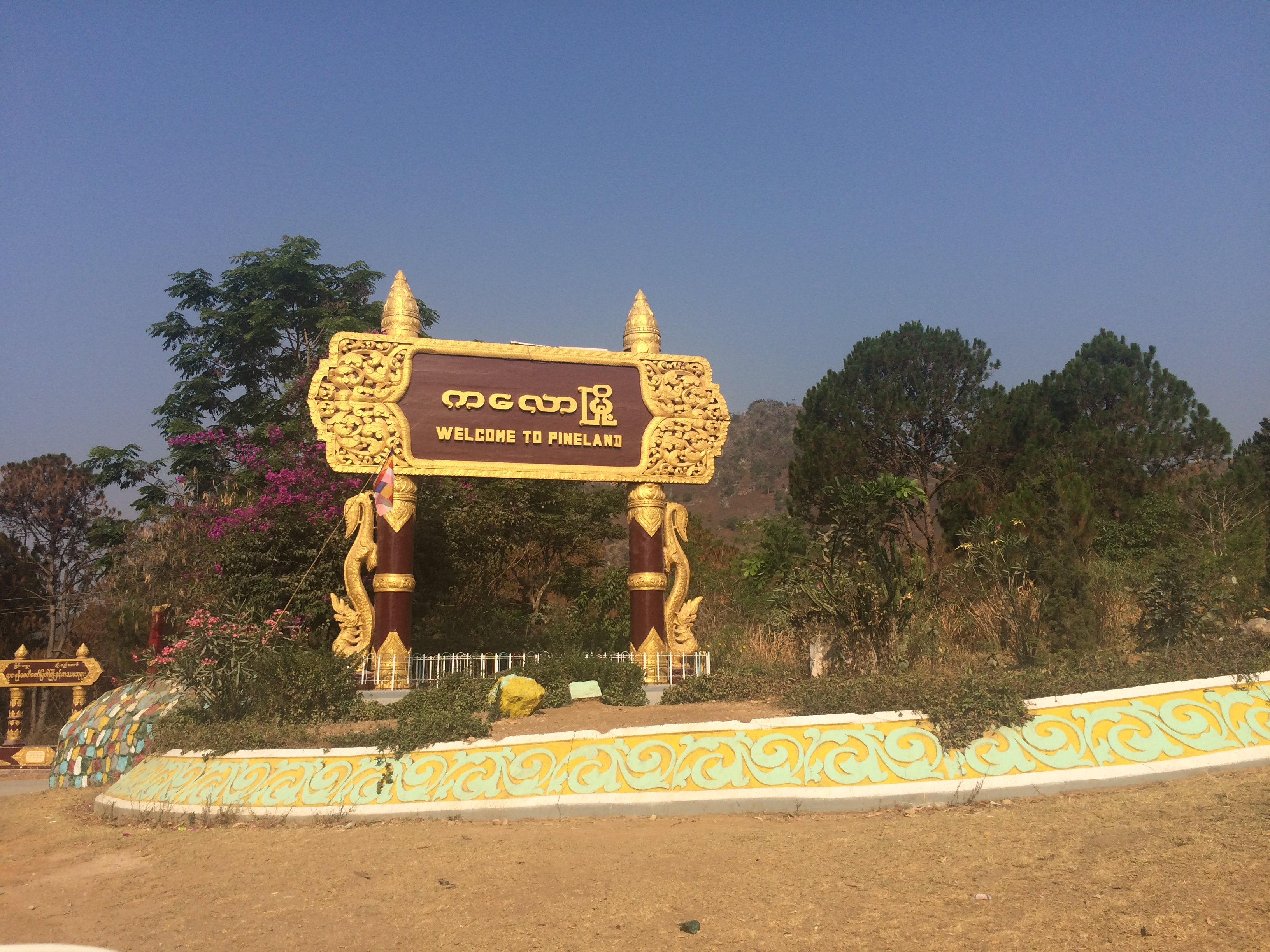 Kalaw welcome signboard မြန်မာဘာသာ: ကလောမြို့ဝင် ဆိုင်းဘုတ်